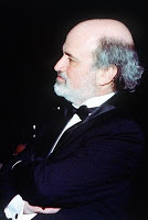 Terry malick